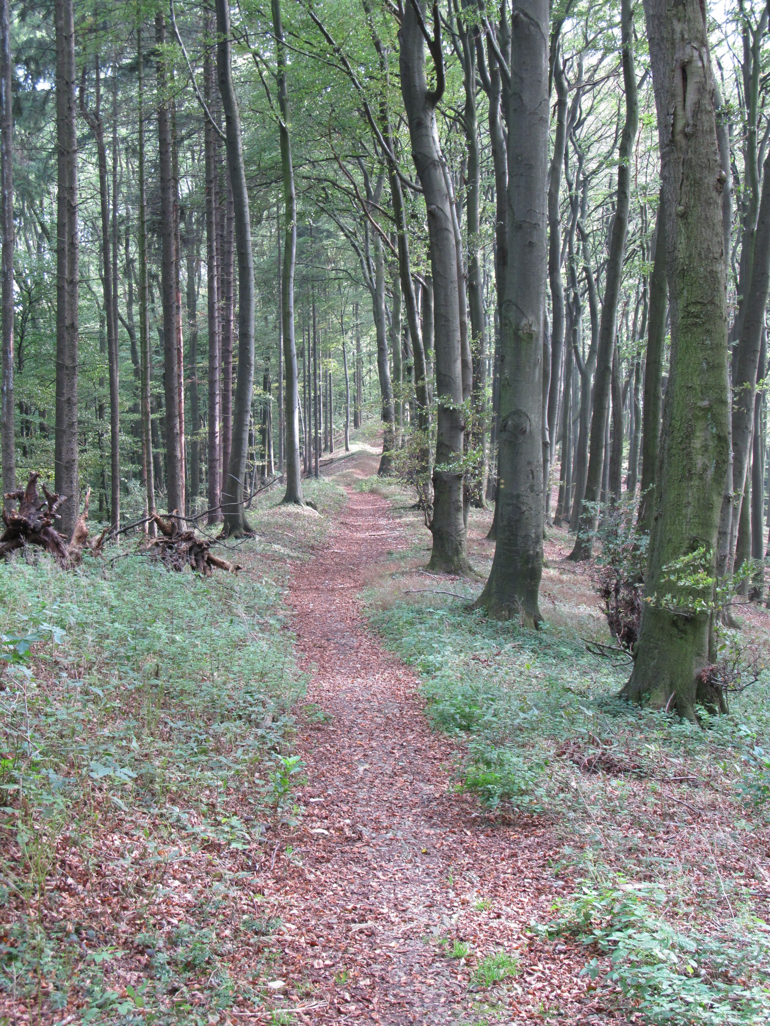 Teutoburg Forest: Hiking trail at the Grosser Freeden